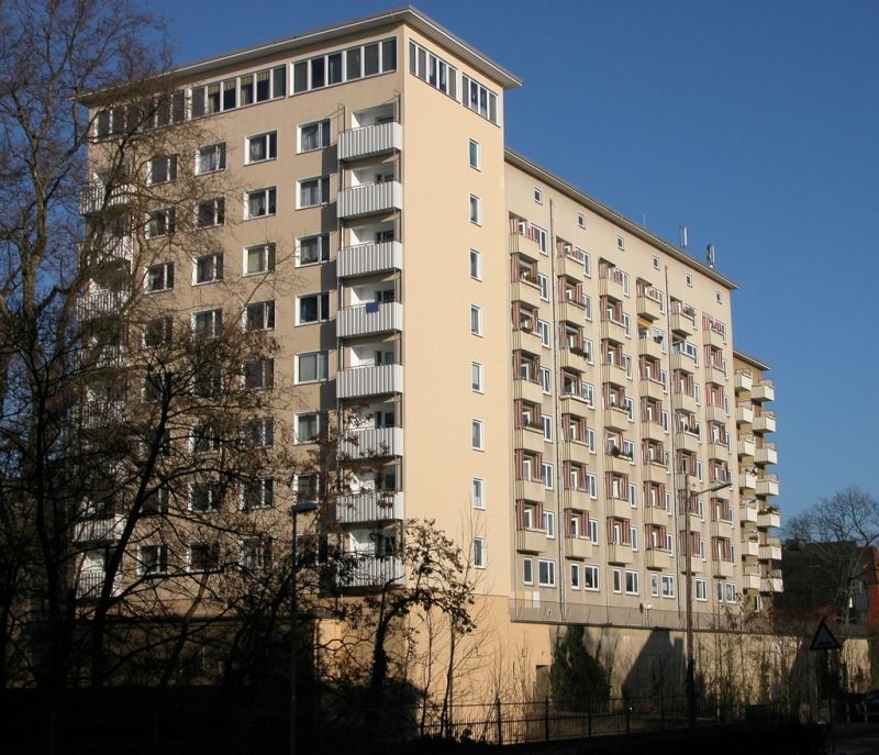 Brunswick, Germany: World War II Bunker Okerstrasse turned into an apartment building (picture taken in January 2006).